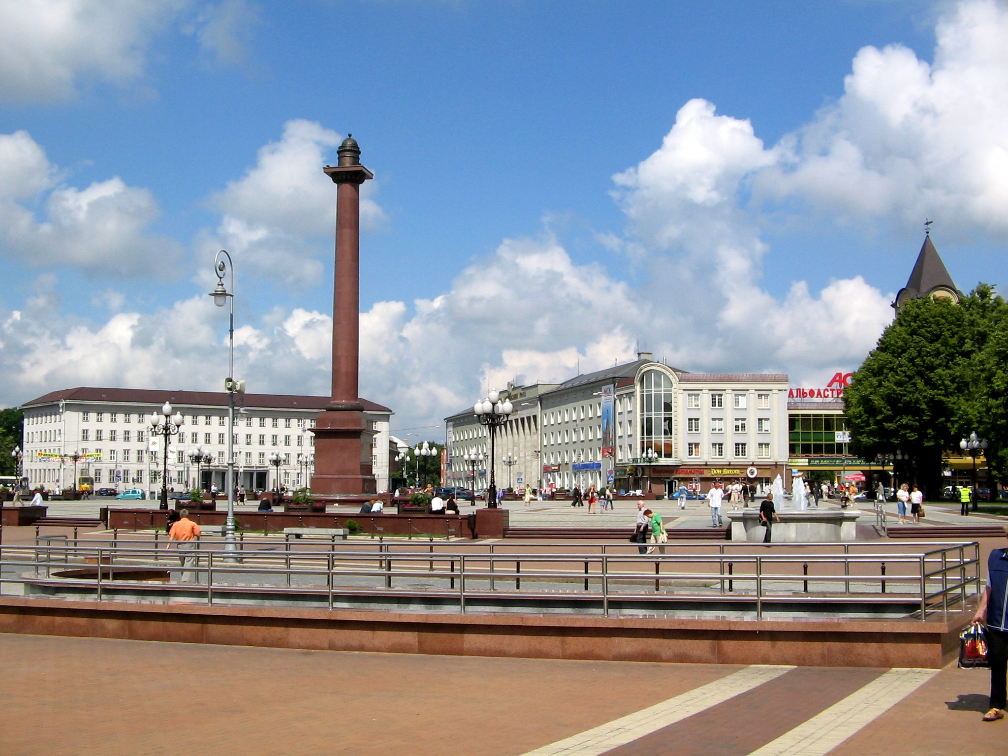 Площадь Победы (Калининград)